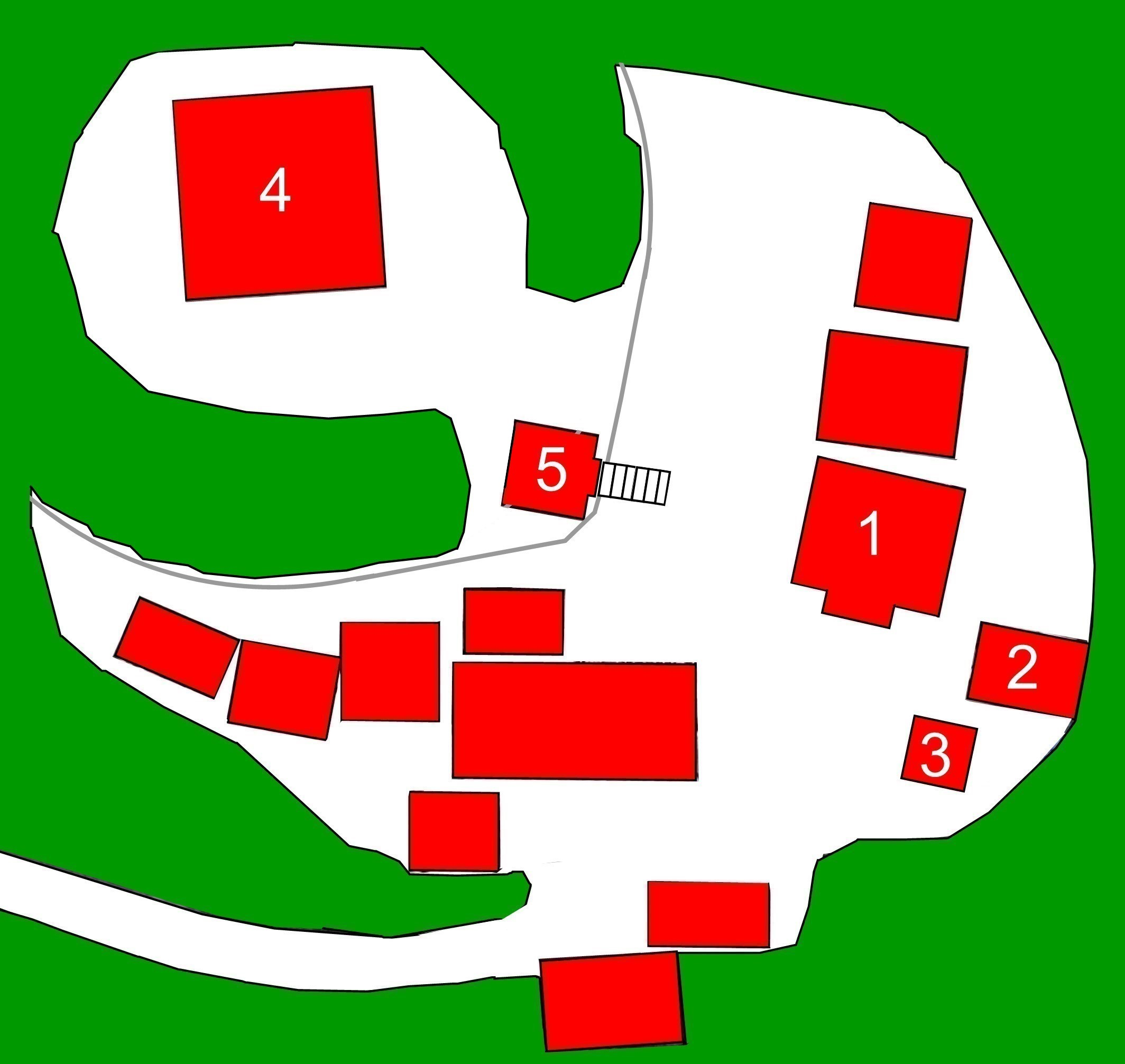 Layout of Kirihata temple, Japan